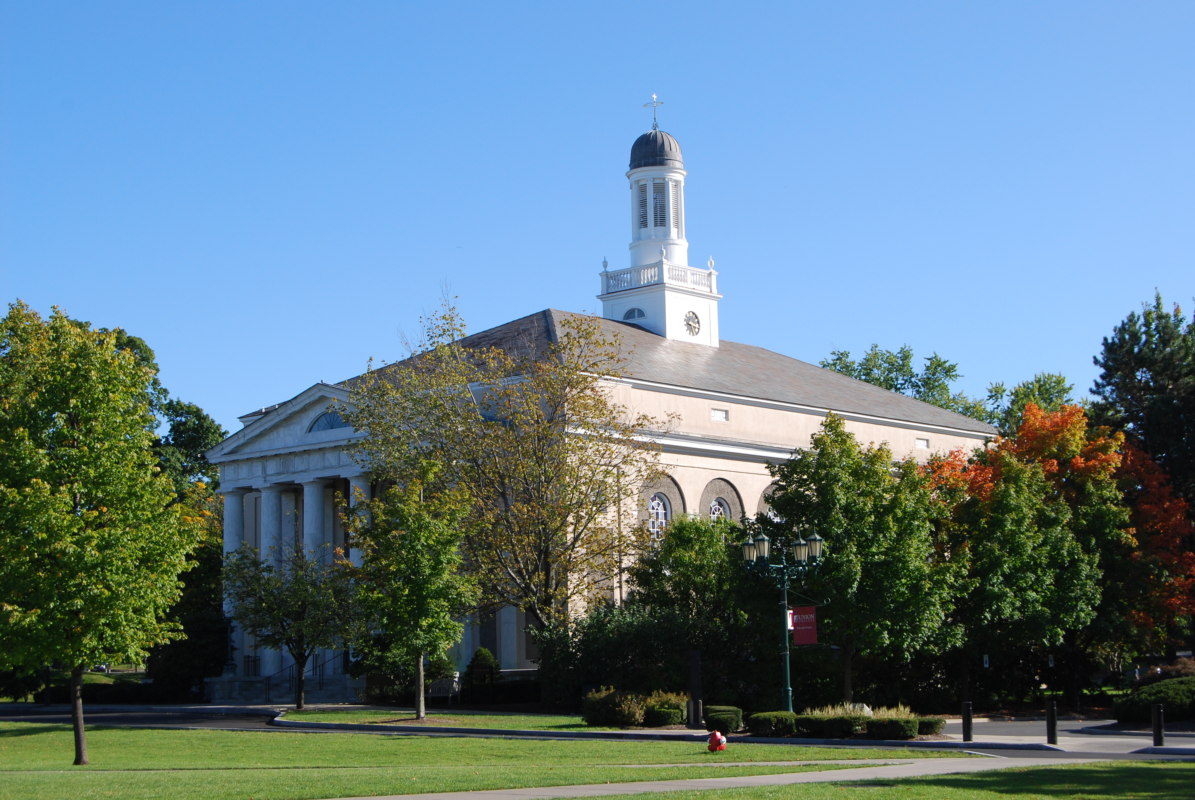 Memorial Chapel, on the campus of Union College in Schenectady, New York, United States